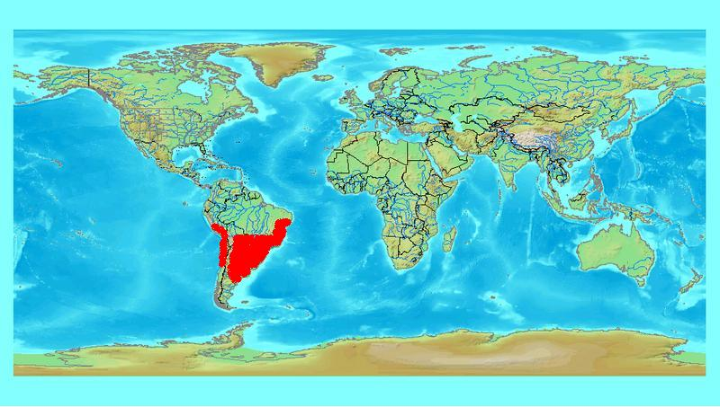 Triatoma infestans Areal. Data PAHO